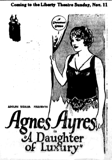 Newspaper advertisement for the American comedy film A Daughter of Luxury (1922) with Agnes Ayres.